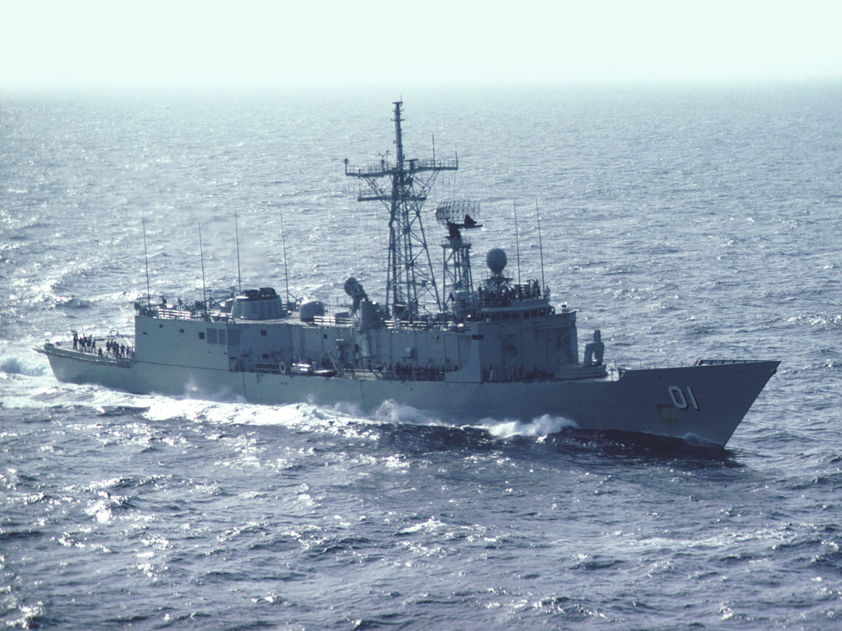 Royal Australian Navy FFG seconded to the USN task force watches flight ops. Identical to the Oliver Hazard Perry class of USN ships. Photographed from USS Enterprise.